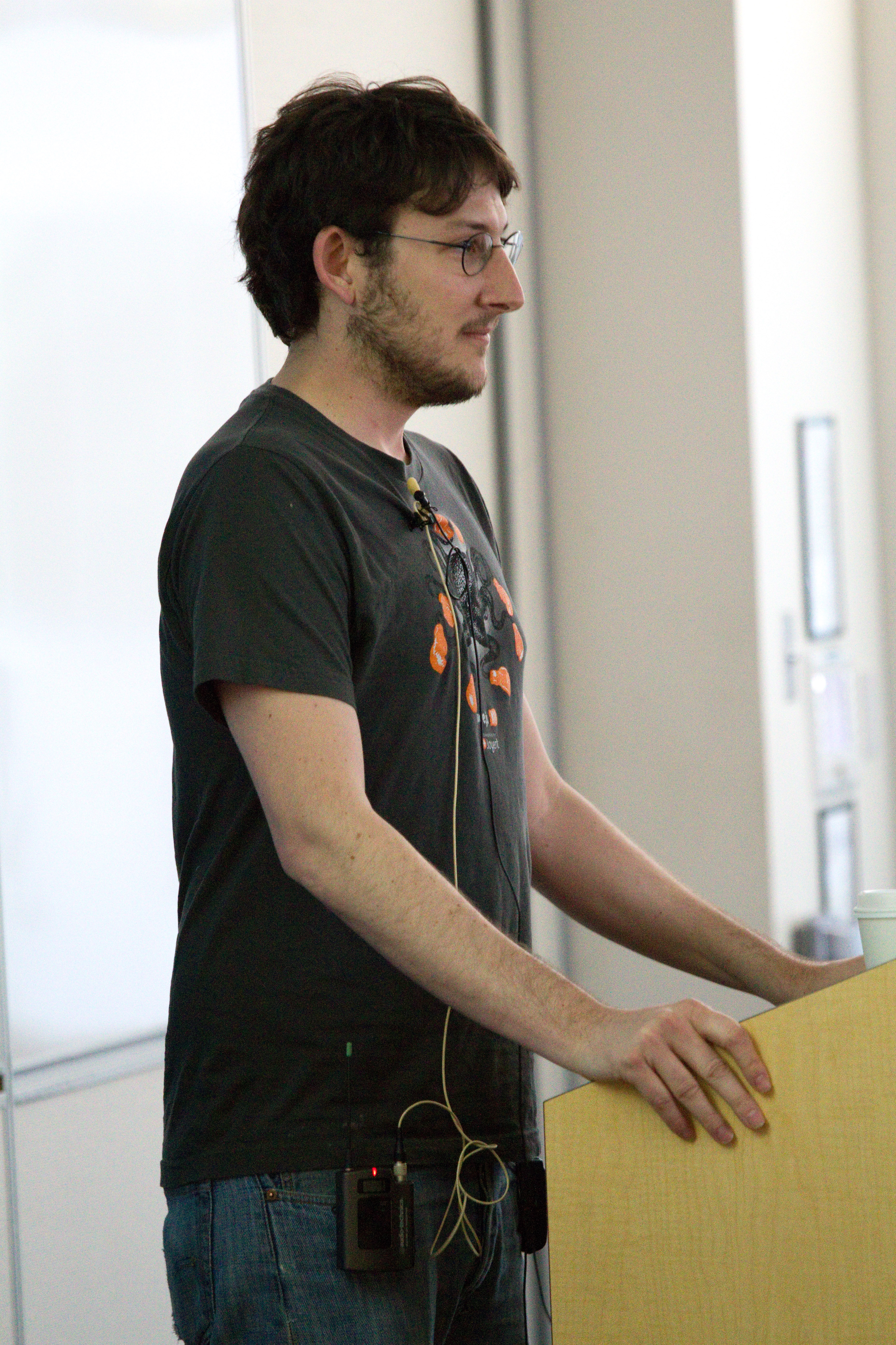 Ryan Dahl speaking at YUIConf 2010 in Sunnyvale (California, United States).